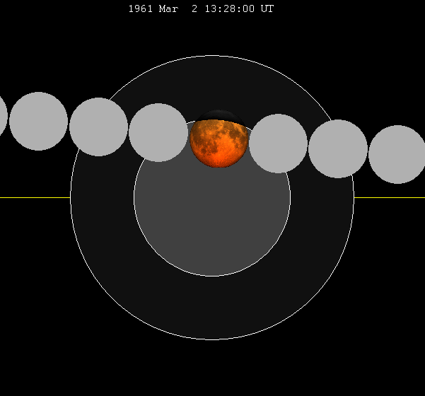 March 1961 lunar eclipse chart of moon's path through the earth's shadow. thumb